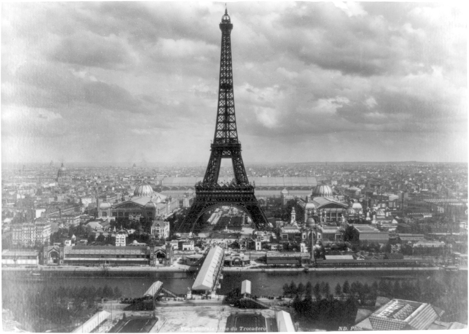 View of the Eiffel tower and the grounds of the Exposition Universelle on the Champs de Mars with Seine and the Pont d'Iena in the foreground, Paris, presumably taken from a tethered balloon above the Trocadero, 1889.